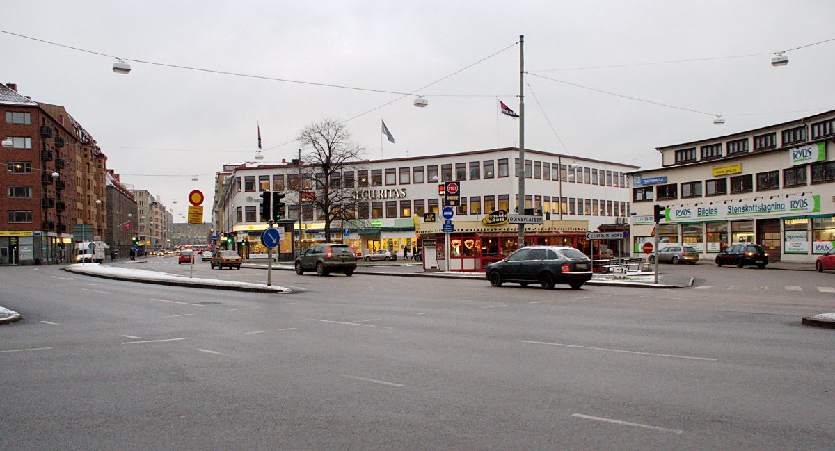 Odinsplatsen in Gothenburg, Sweden.